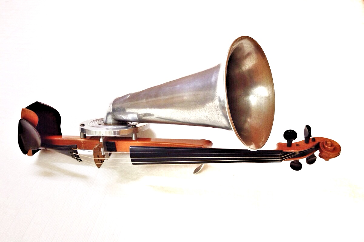 Stroh violin / Violí de botzina, MDMB 1120 References violí stroh (ca. 1900), Compagnie française du gramophone. Catalogue online. Museo de la Música de Balcelona.